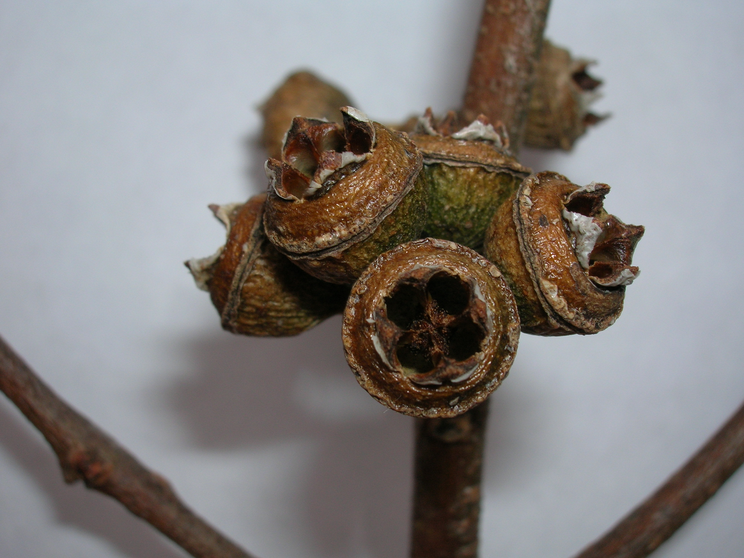 Eucalyptus tereticornis (fruit). Location: Maui, Makawao